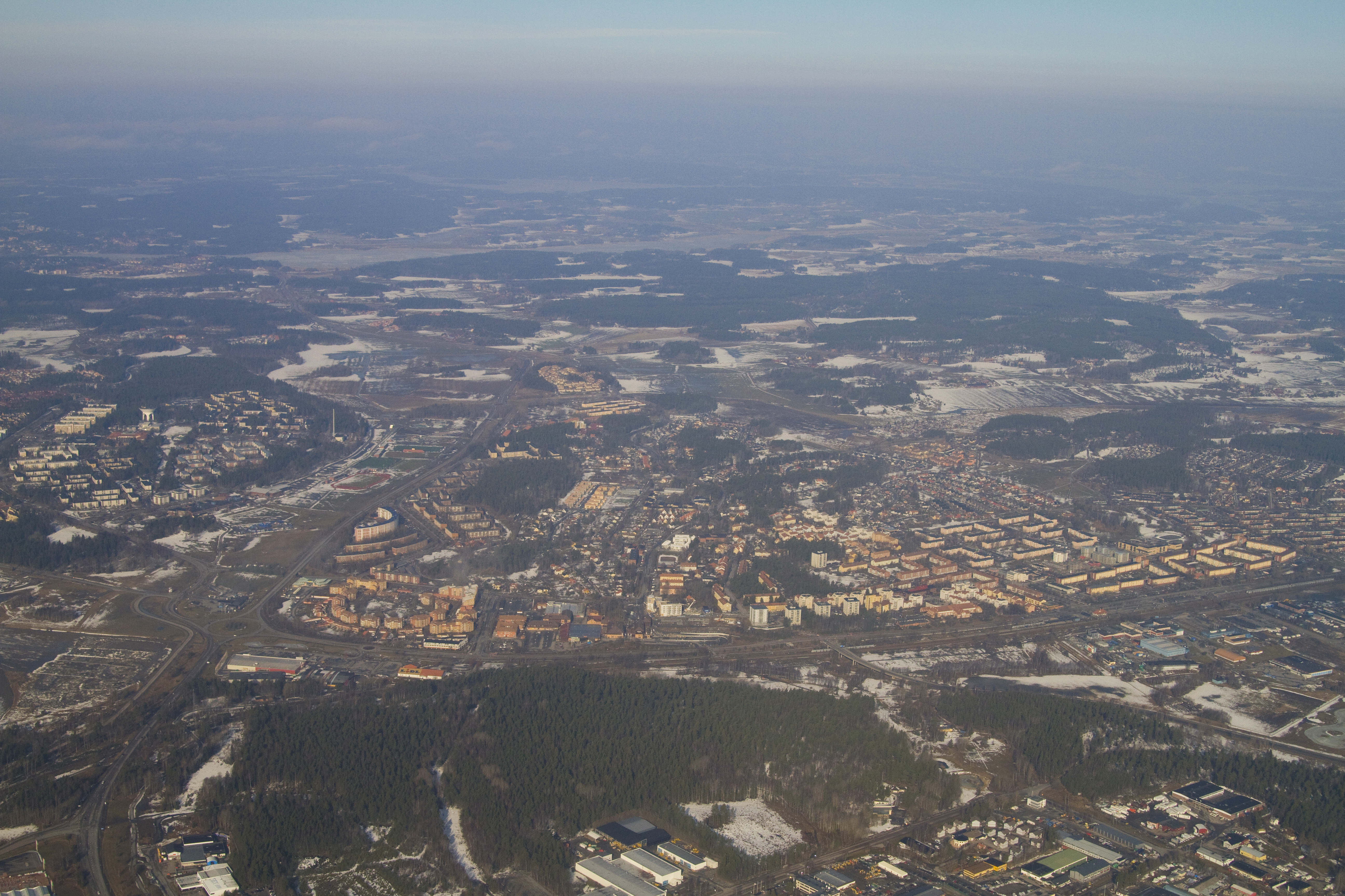 Märsta City from the air